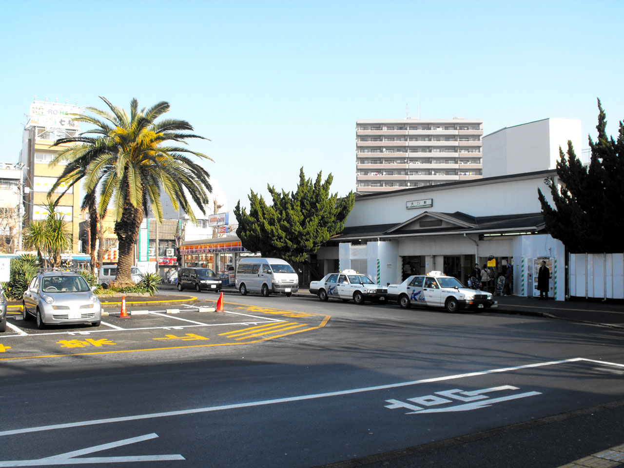 Ooguchi Railway Station in Kanagawa, Japan